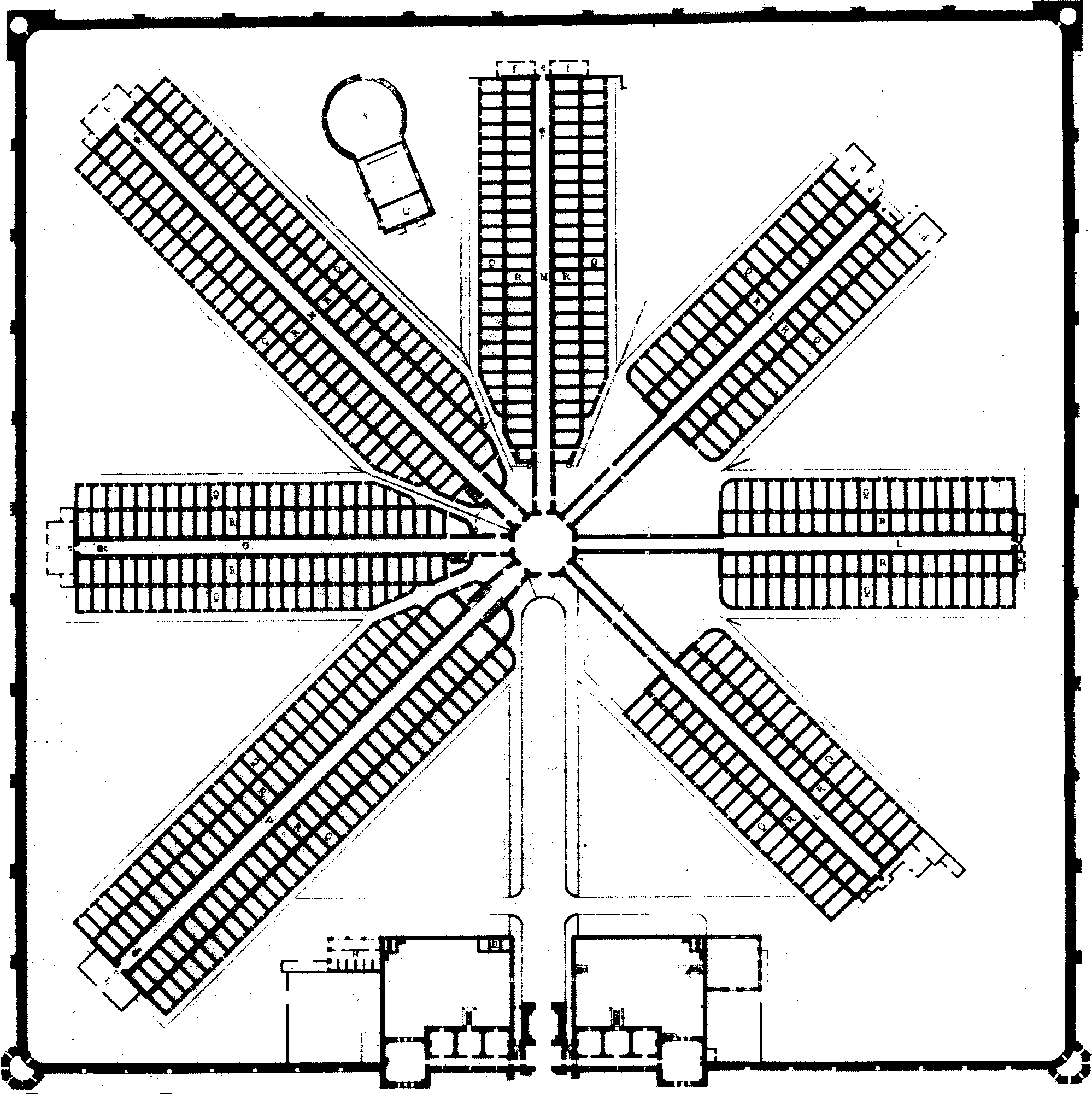 The 1836 floor plan of the Eastern State Penitentiary in Philadelphia, Pennsylvania